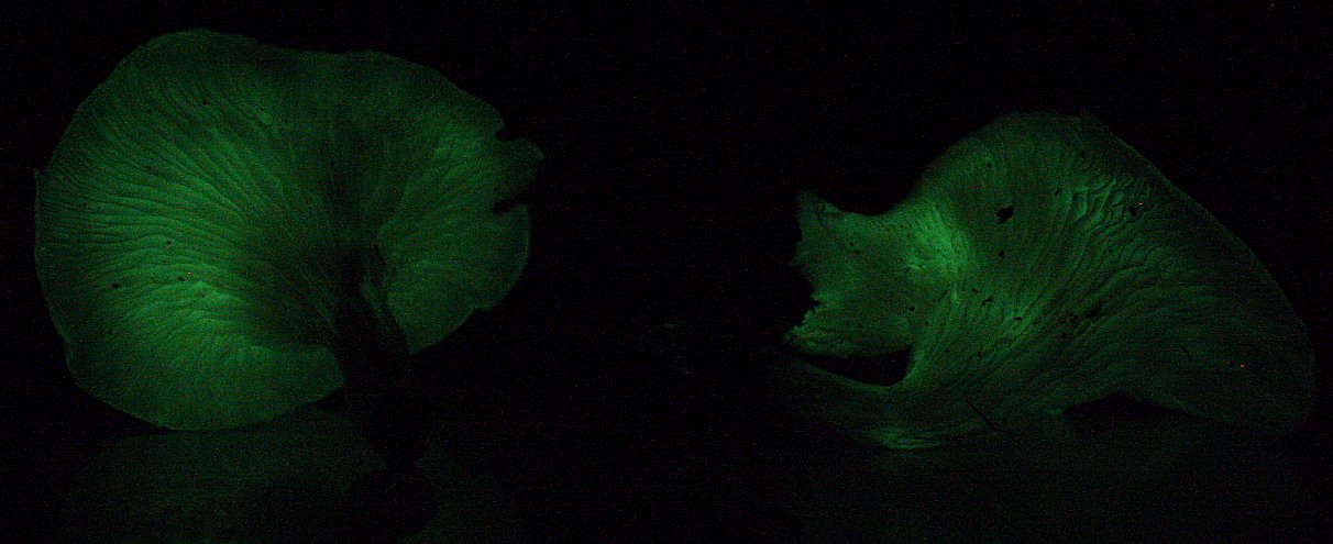 Omphalotus nidiformis showing bioluminescence - 30 sec at ISO 1600